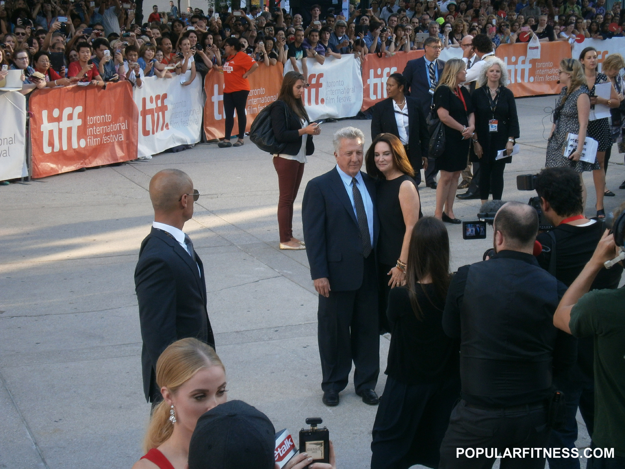 Dustin Hoffman posing with his wife Lisa Hoffman at TIFF -Toronto International Film Festival - for the premiere of the movie Boychoir.